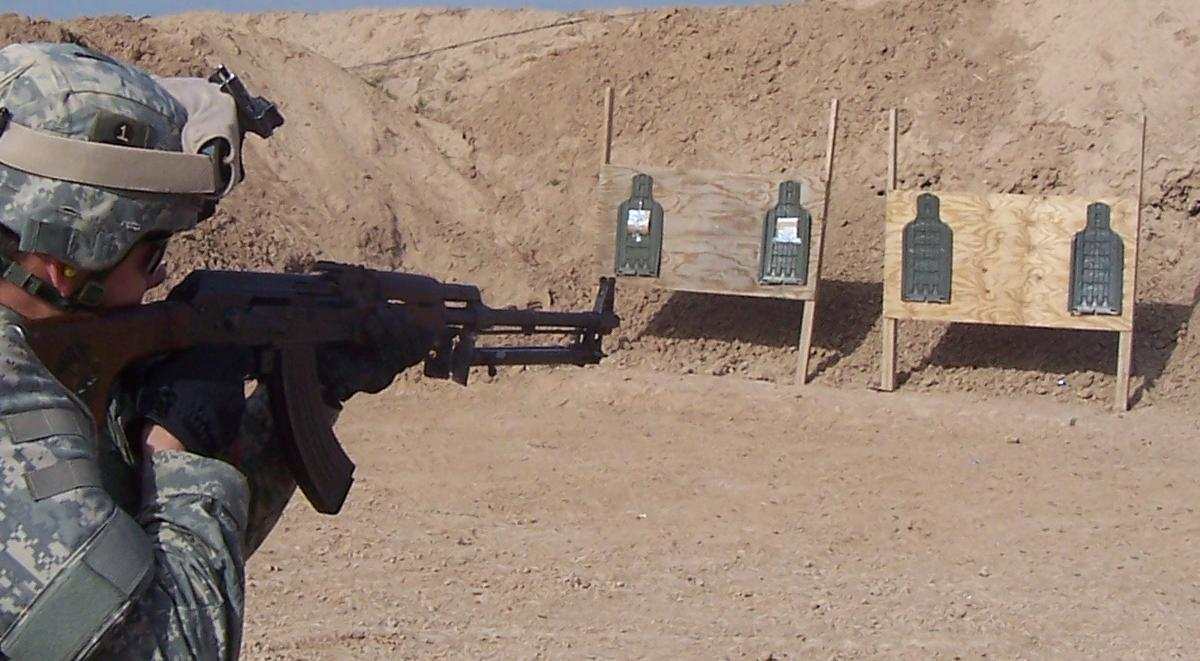 U.S. Soldier firing an RPK at FOB McHenry, Iraq, during OIF-4.